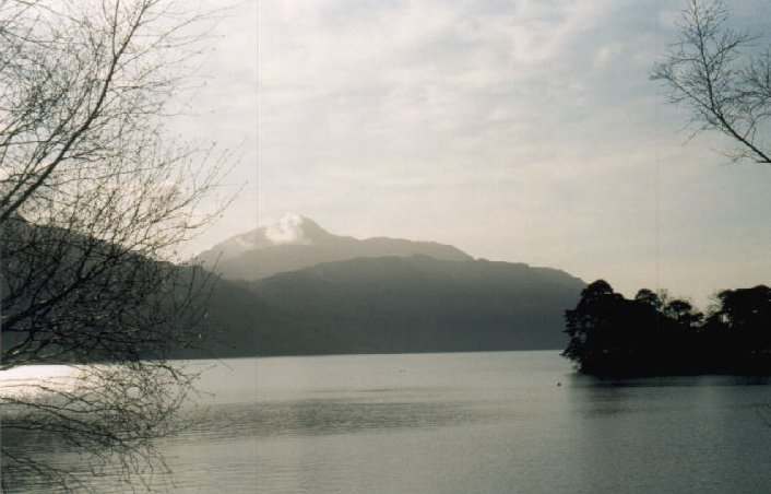 Ben Lomond, Scotland